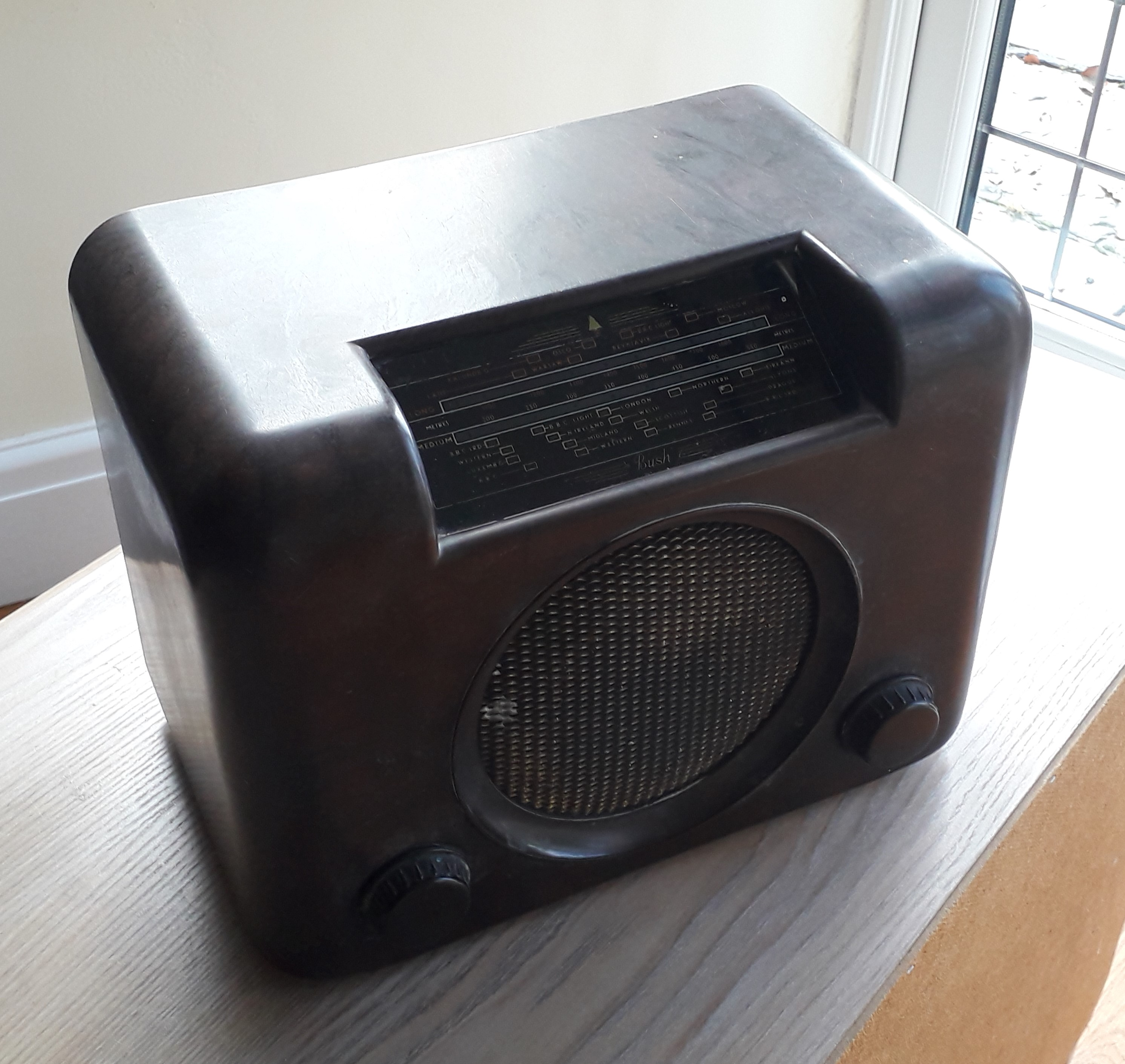 Bush DAC 90A radio